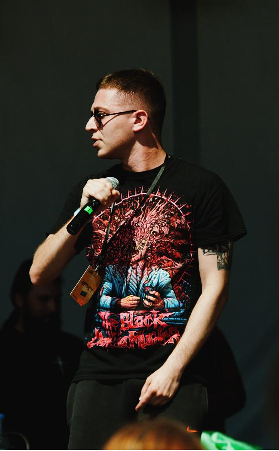 Oxxxymiron на фестивале Пикник «Афиши» в Коломенском